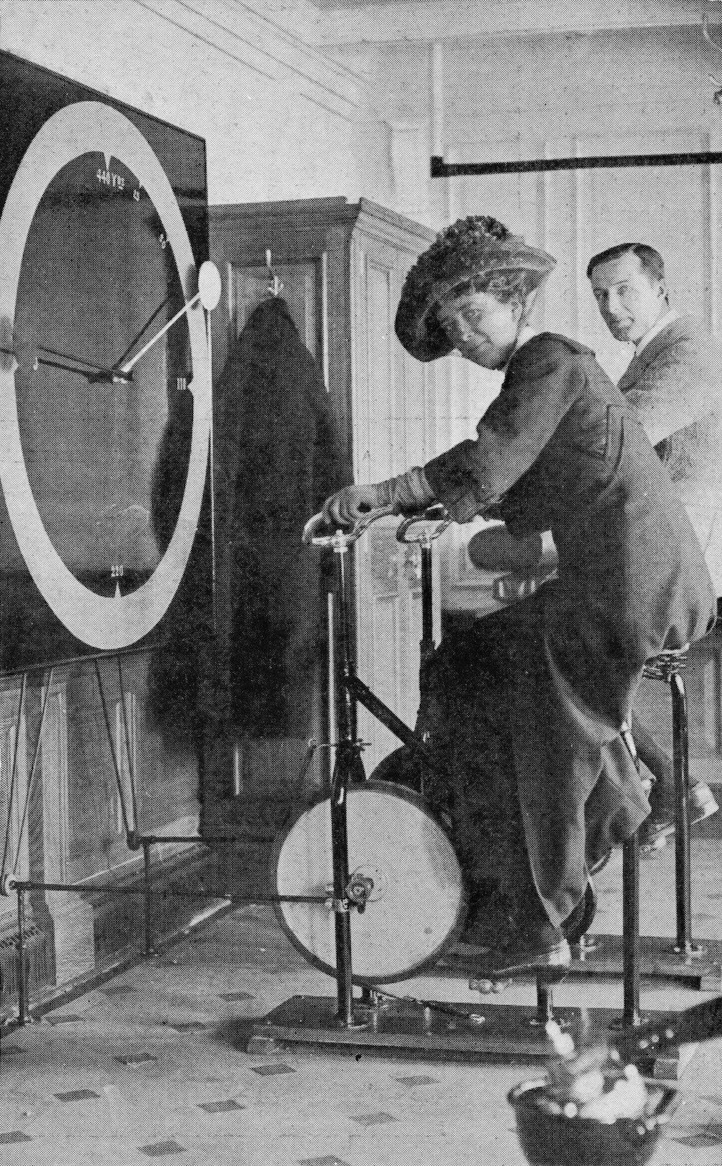 Lawrence Beesley in the Gymnastics Room of the RMS Titanic. Lawrence Beesley (born December 31, 1877 — died February 14, 1967), was an English teacher, journalist and author who was a survivor of the sinking of the RMS Titanic. He was born in Wirksworth, Derbyshire.